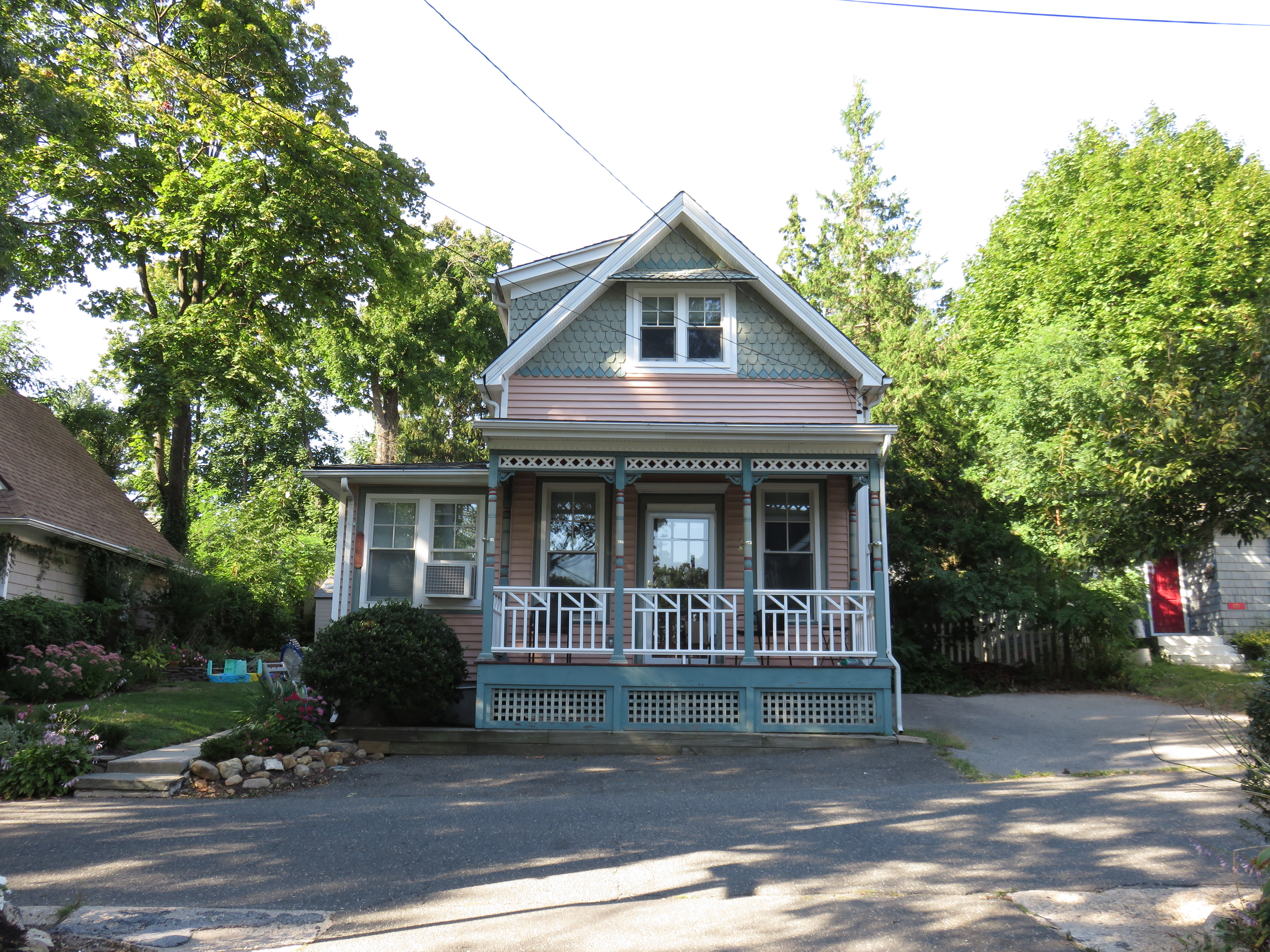 Stephen Harding House, 182 Fourteenth Avenue, Sea Cliff, New York